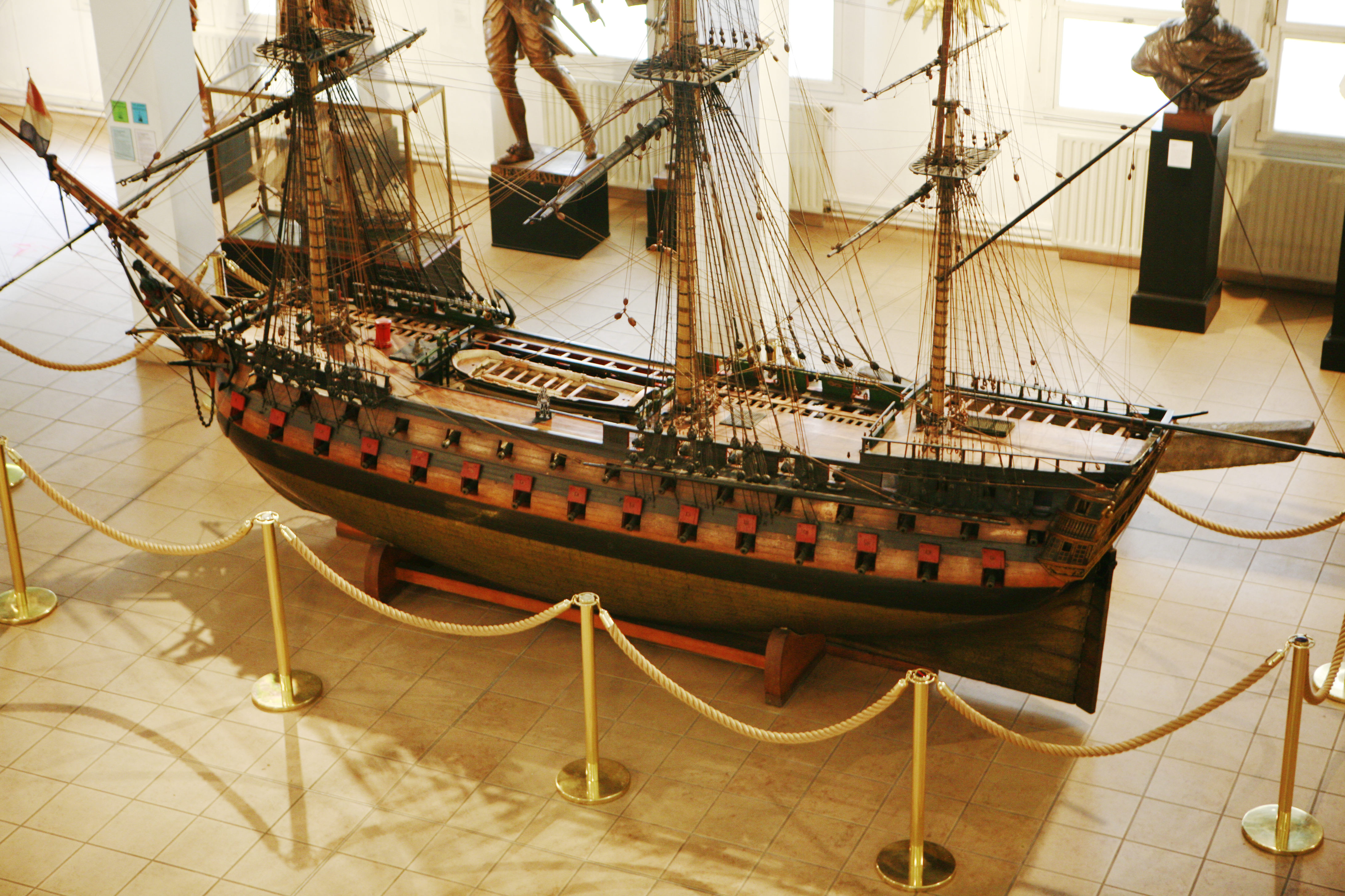 Model of the Duquesne (1813-1836), a 80-gun ship of the line of the French Navy. Model on display at Toulon naval museum. Anonymous author, accession number 13 MG 30.